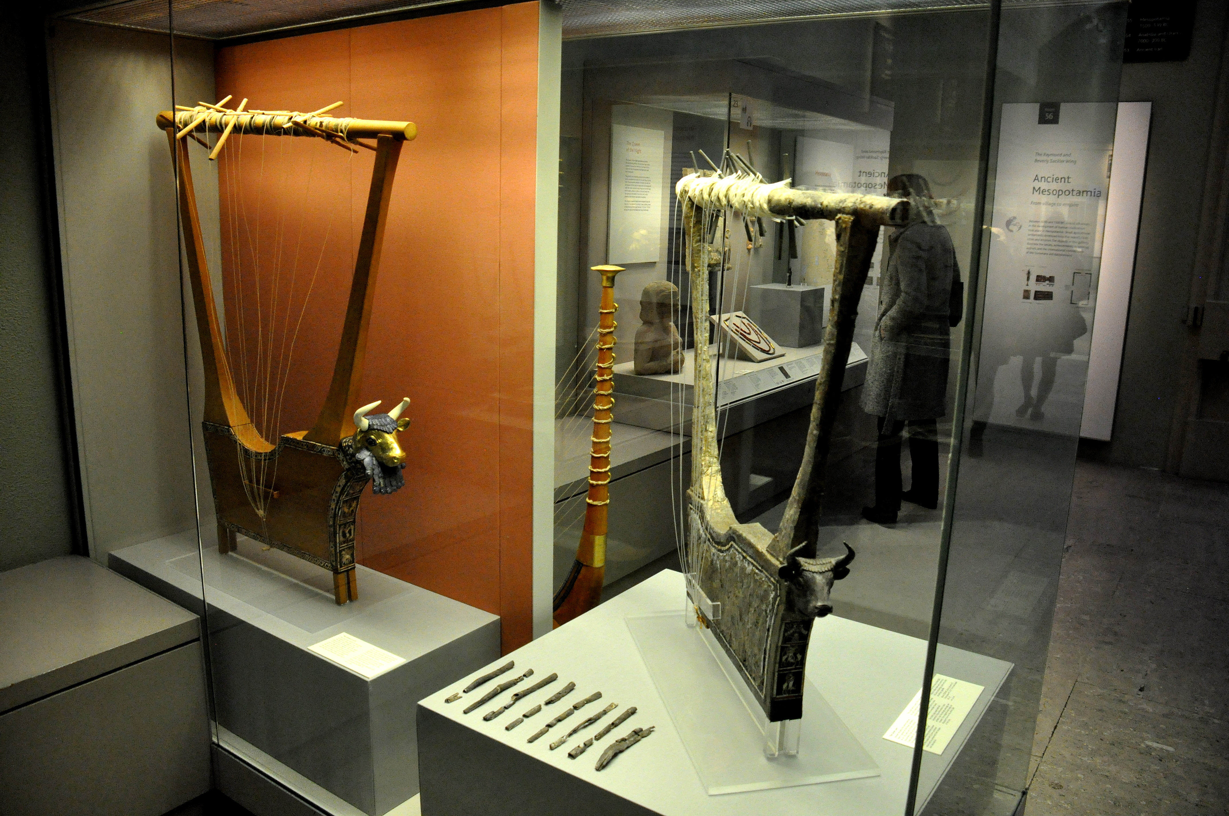 The Queen's lyre (left, golden bull's head) and the silver lyre (right). They can be found at "Room 56, Mesopotamia." From the Royal Cemetery at Ur, southern Mesopotamia, Iraq. Early dynastic period, circa 2500 BCE. The British Museum, London.